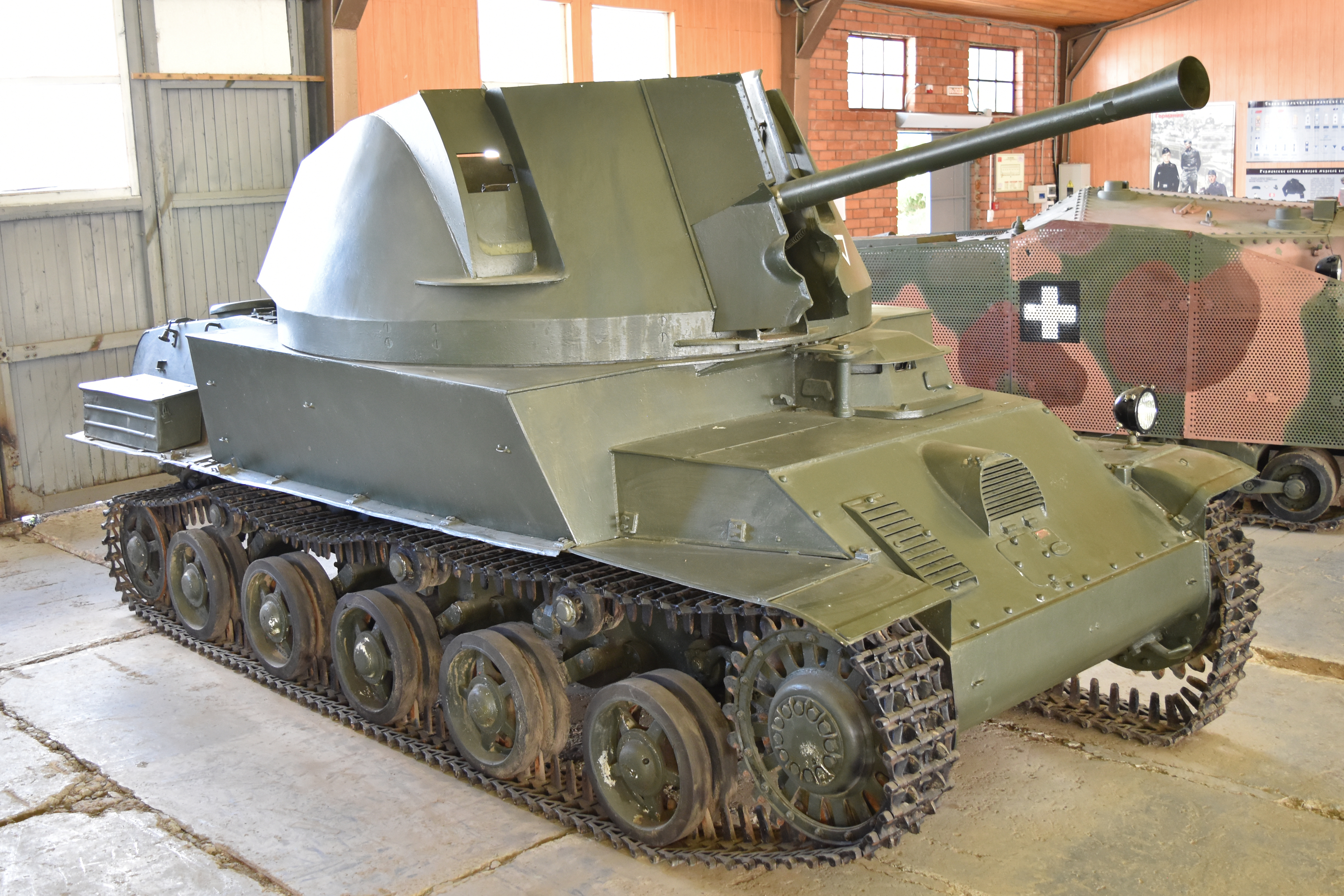 Manufacturer:- Manfred Weiss Works Total production:- 135 Main Armament:- 40mm Bofors/60 Anti-Aircraft gun License built copy of the Swedish Luftvärnskanonvagn L-62 Anti II. Originally intended to be a tank destroyer as well as a self-propelled anti-aircraft tank, but it wasn’t effective against the latest Soviet tanks and was therefore mainly used for air defence. It is on display in what is best known as Hall 5 of the Kubinka Tank Museum, although its official title is now Pavilion 5 in Area 2 of the Park Patriot museum. Kubinka, Moscow Oblast, Russia. 24th August 2017.